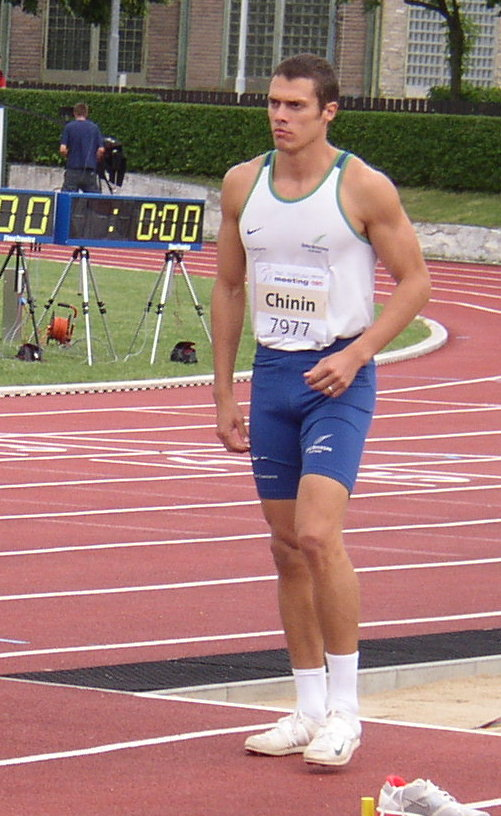 Athlete Carlos Chinin of Brazil preparing for his attempt in long jump during men's decathlon at 5th edition of the TNT - Fortuna Meeting (IAAF World Combined Events Challenge Meeting, Sletiště Stadium, Kladno, Czech Republic, 15 June 2011, 13:30).